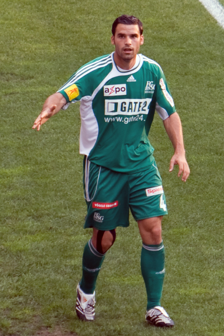 Bernt Haas soccer player FC St.Gallen